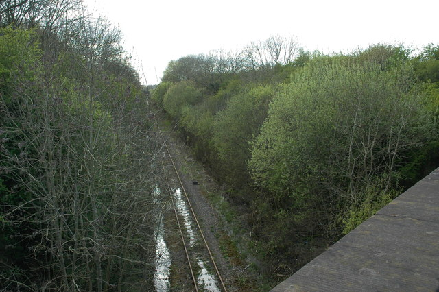 Site of proposed Winslow Station The former Bicester - Bletchley line (Varsity Line) is to be reopened as part of the East West Rail scheme in December 2017. The previous site of Winslow station has now been largely taken over by a recent housing development. So the proposal is to build a new station on a site just west of the intersection of the A413 and the B4033 on the North Western edge of Winslow. That site is to the right side of the line shown in this photo.